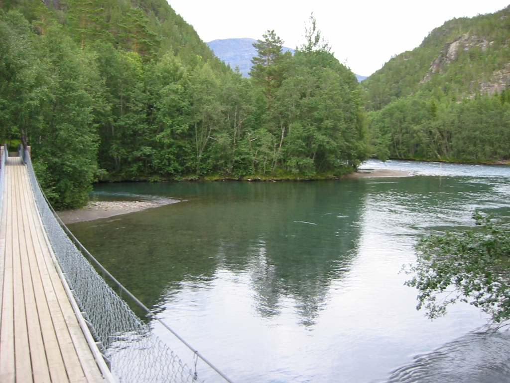 Eng: Junkerdal river is a mayor tributary to Saltdal river in Saltdal municipality, Nordland, Norway. The Junkerdal nature reserve (with the famous botanical location Junkerdalsura) is on the other side of the river. I took this picture myself, no rights reserved. No: Junkerdalselva, med stien inn til Junkerdal naturreservat med den berømte Junkerdalsura.